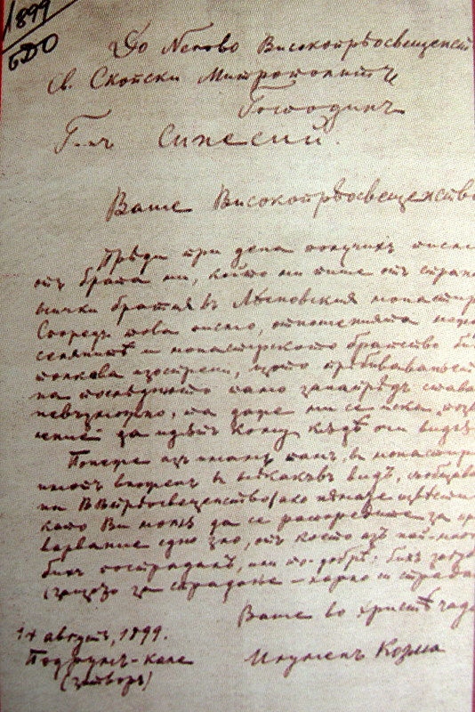 A Letter from Kozma of Lesnovo to the Bulgarian bishop Synesius of Skopje from Podrum Kale Prison, 14 August 1899.